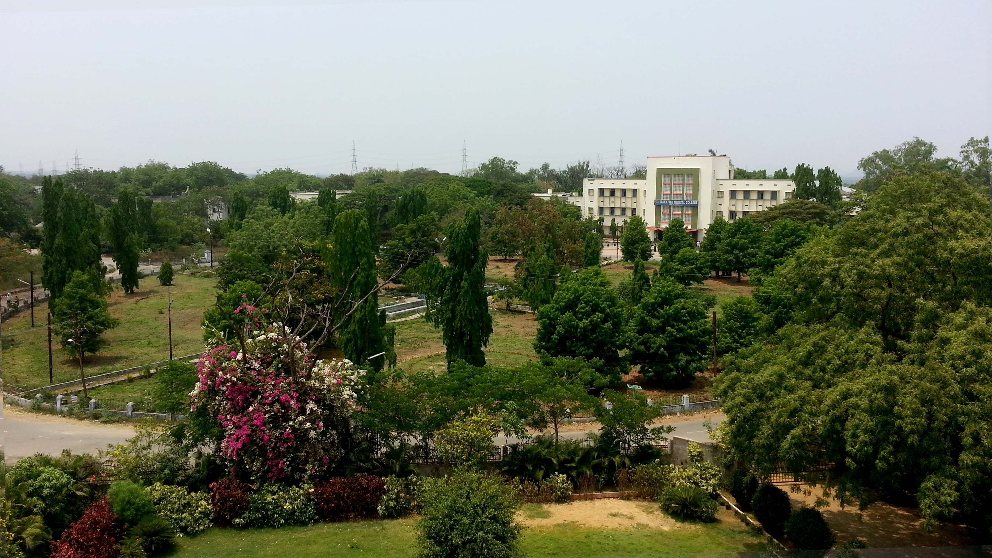 april photo of KMC main building